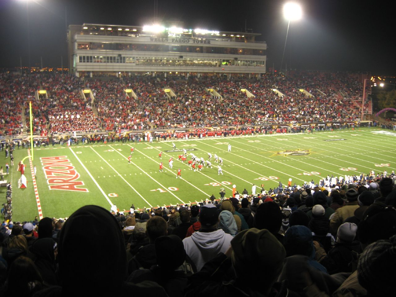 Arizona Wildcats 31, BYU Cougars 21